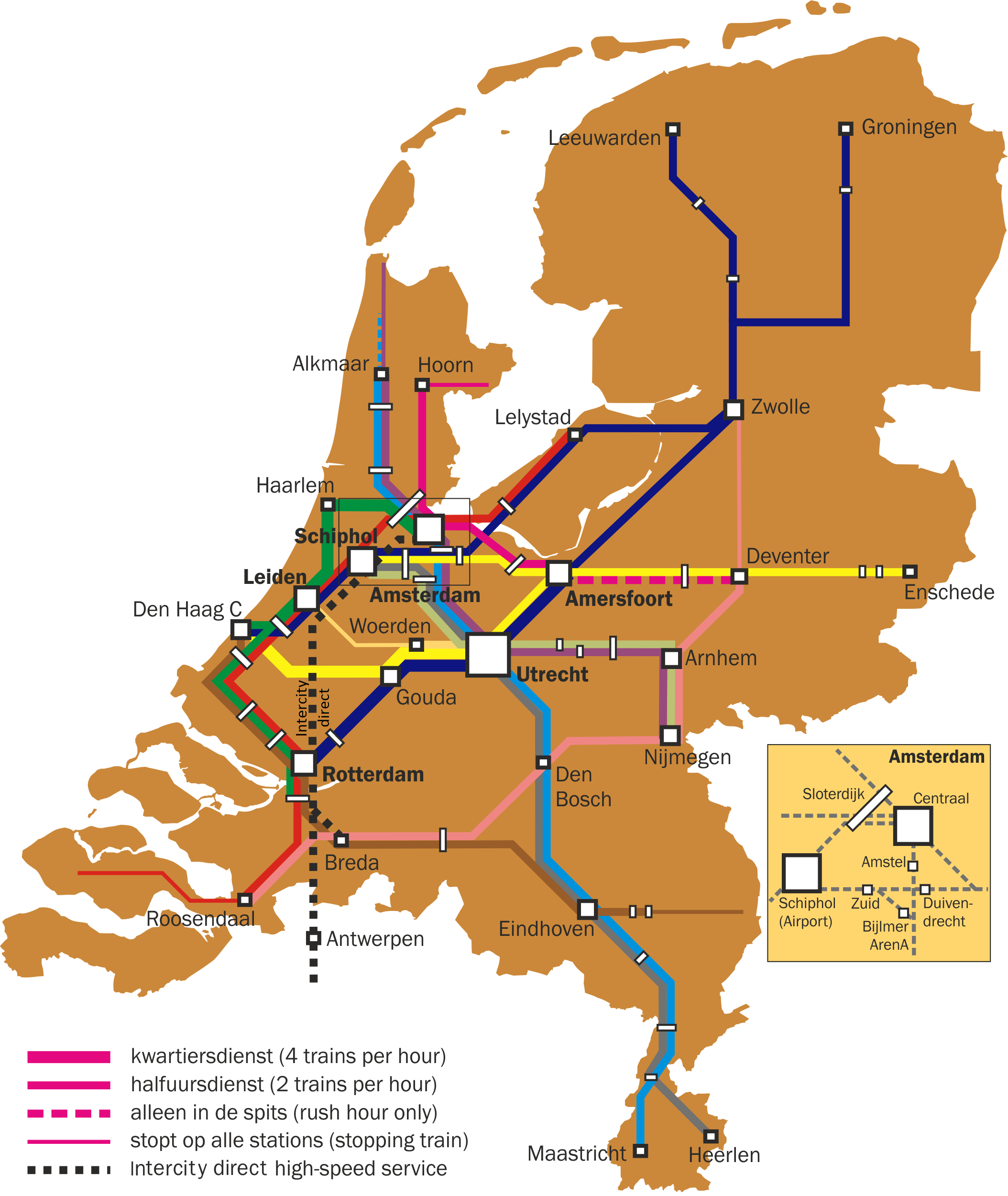 Intercitynet 2015 Dutch Railways